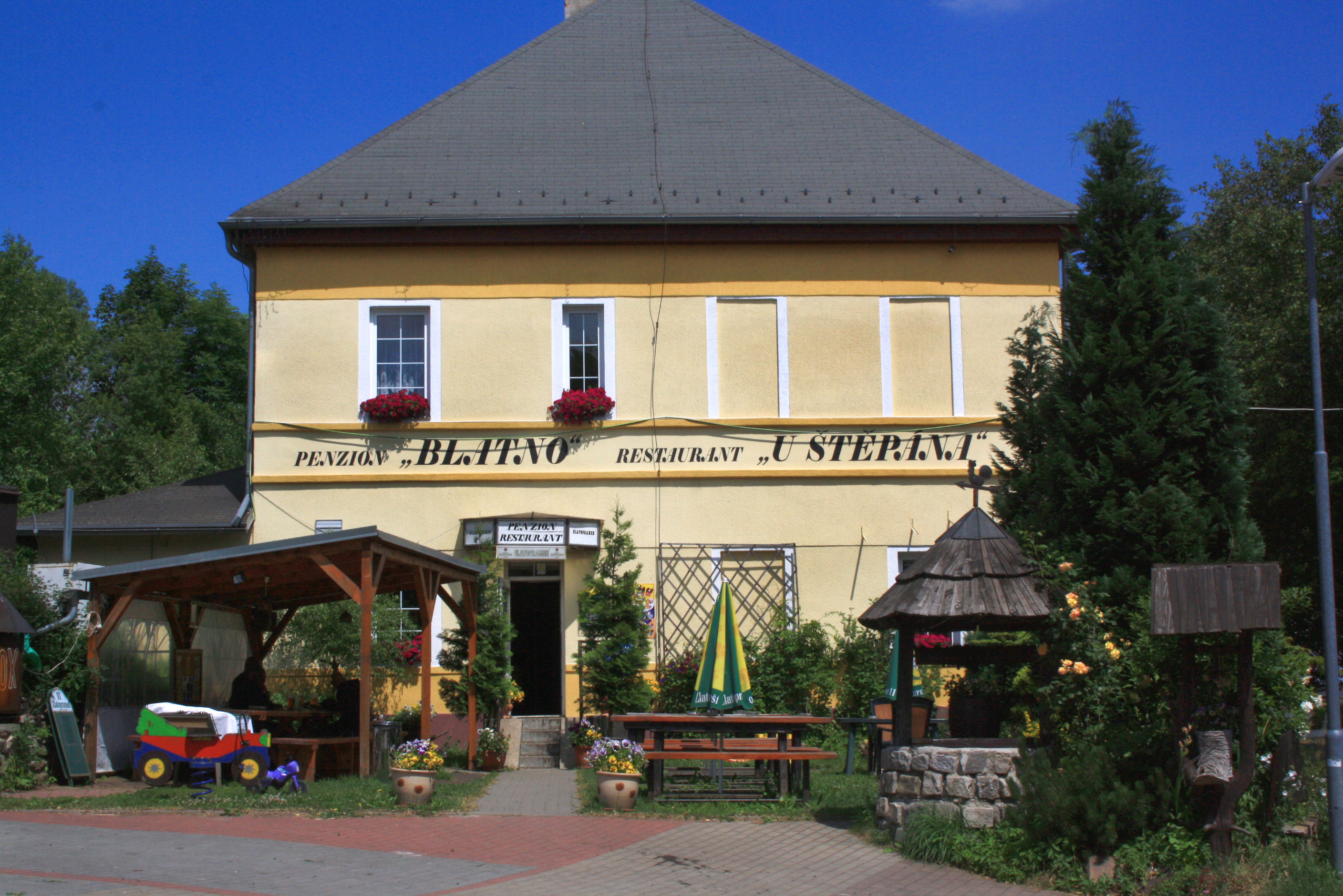 Restaurant at Blatno, Czech Republic